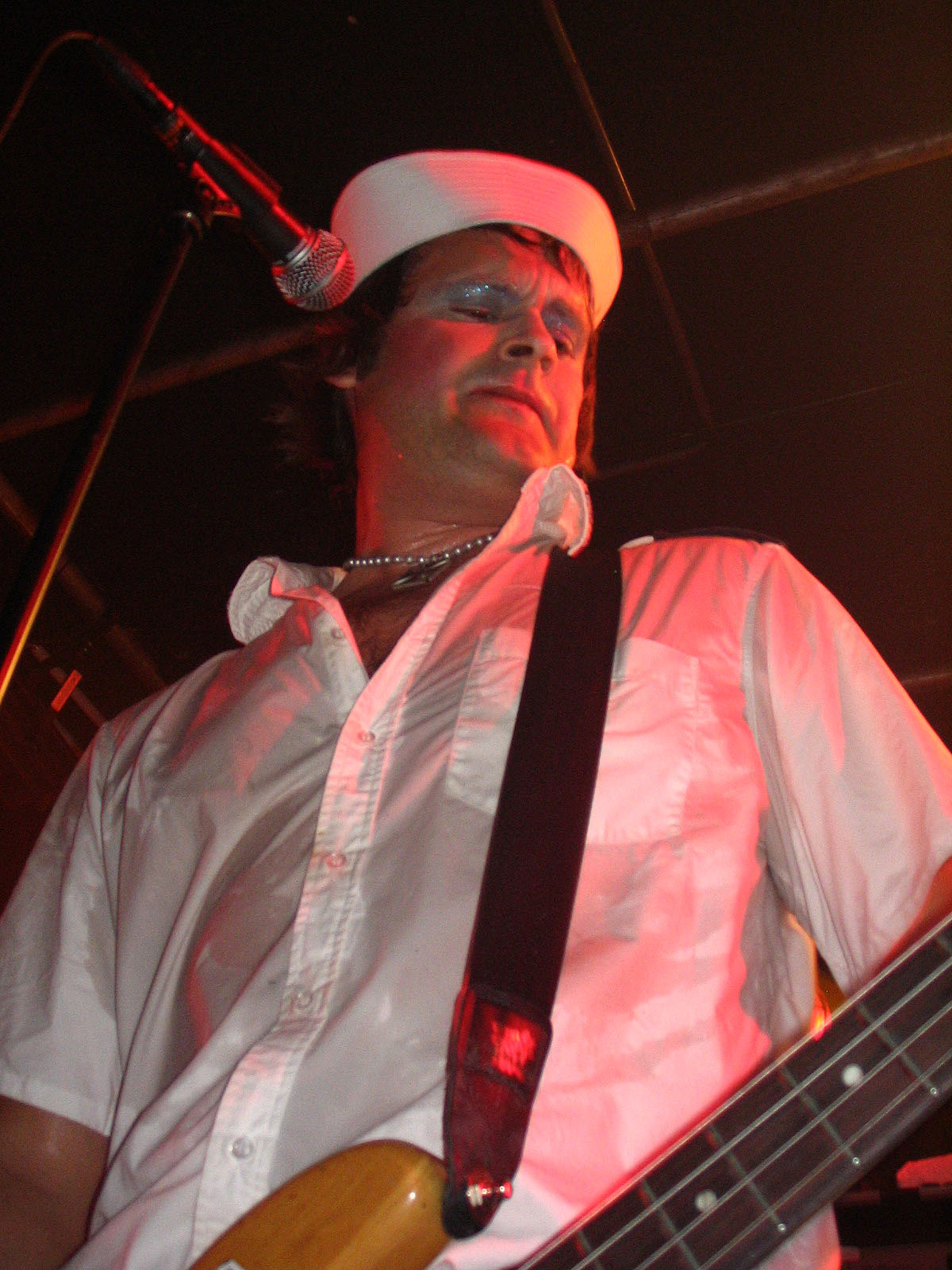 Happy Tom, bassist of Turbonegro.